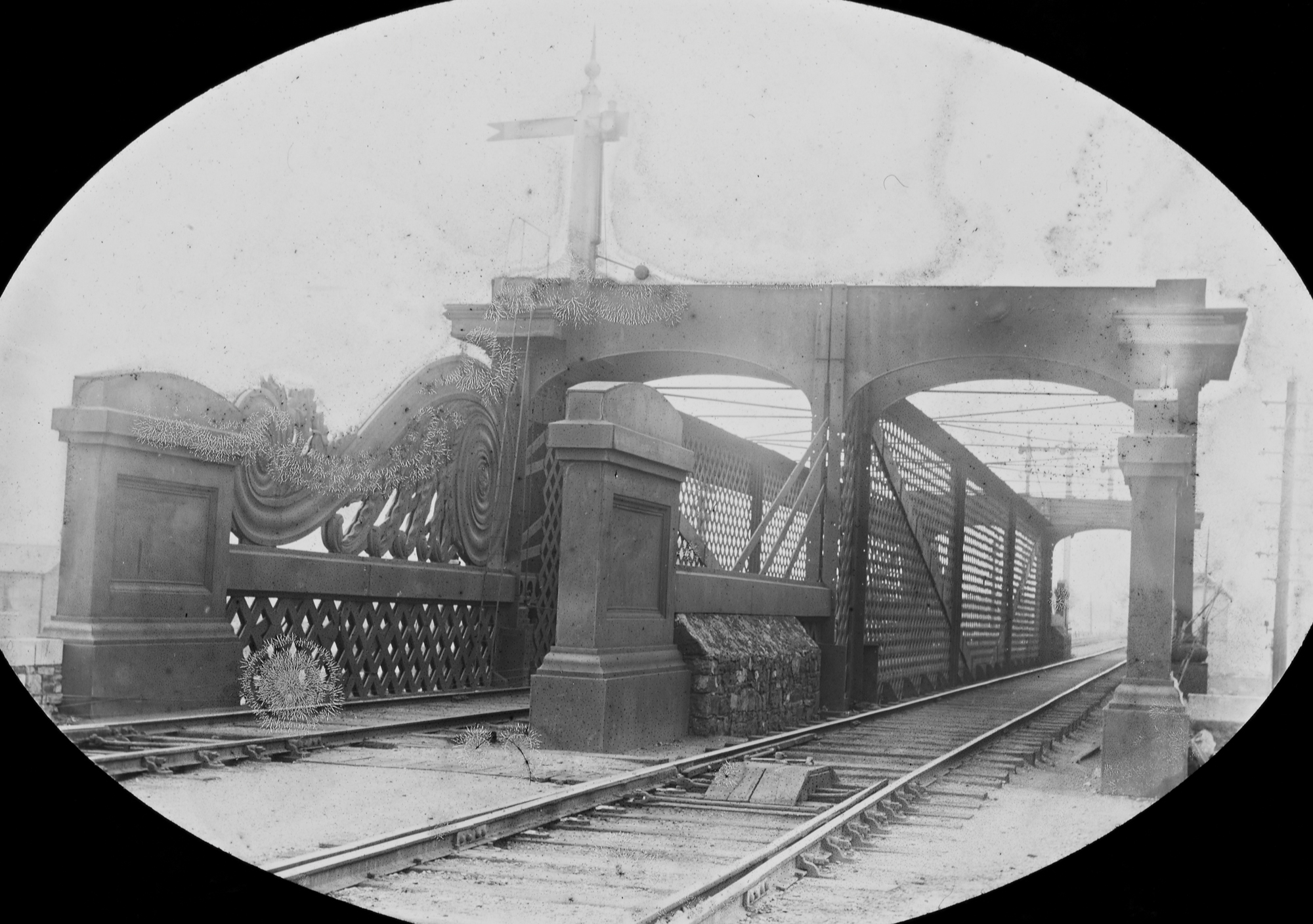 Today another Hargrave image and yet another railway bridge but this time no known location! This looks like a fine piece of engineering and some excellent cast iron work. If it is still in place today then there may have been some changes but the distinctive cast iron features might still be there(?) Following a few days, and some singular and amazing detective work from [/photos/flyingsnail/ Eiretrains], it is confirmed that this railway bridge is on the Dublin and Drogheda Railway line, just north of Amiens Street (Connolly) station. Specifically, this bridge spans the Royal Canal and Ossory Road on Dublin's northside. The decorative cast-iron flourishes and many structural elements of the bridge are gone, but some of the stonework in particular remains.... Photographer: Joshua H. Hargrave Collection: Joshua H. Hargrave Collection Date: ca.1890 NLI Ref.: HAR146 You can also view this image, and many thousands of others, on the NLI’s catalogue at